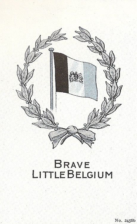 A 1914 British postcard showing the British admiration of Belgium's stance against Germany's declaration of war.